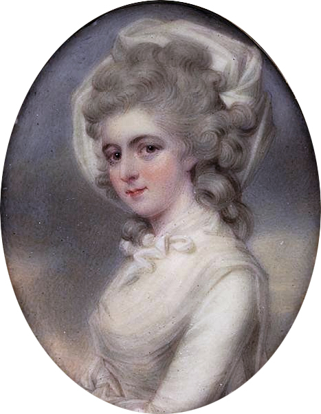 Lady Anne Horatia Seymour, née Waldegrave (1762-1801), in white dress, fichu, scarf in her powdered curling hair; sky background